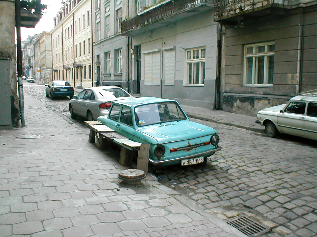 Description: Lwiw, Ukraine, typical scene in the centre, вул. Братiв Рогатинцiв street. Source: self-made July 2005 Photographer/Painter: Stefan Richter Note: (by Kneiphof: Small green vehicle in very poor condition is ZAZ Zaporozhets, older version, with a fixed resting-place.